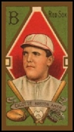 Baseball card of Eddie Cicotte in 1911